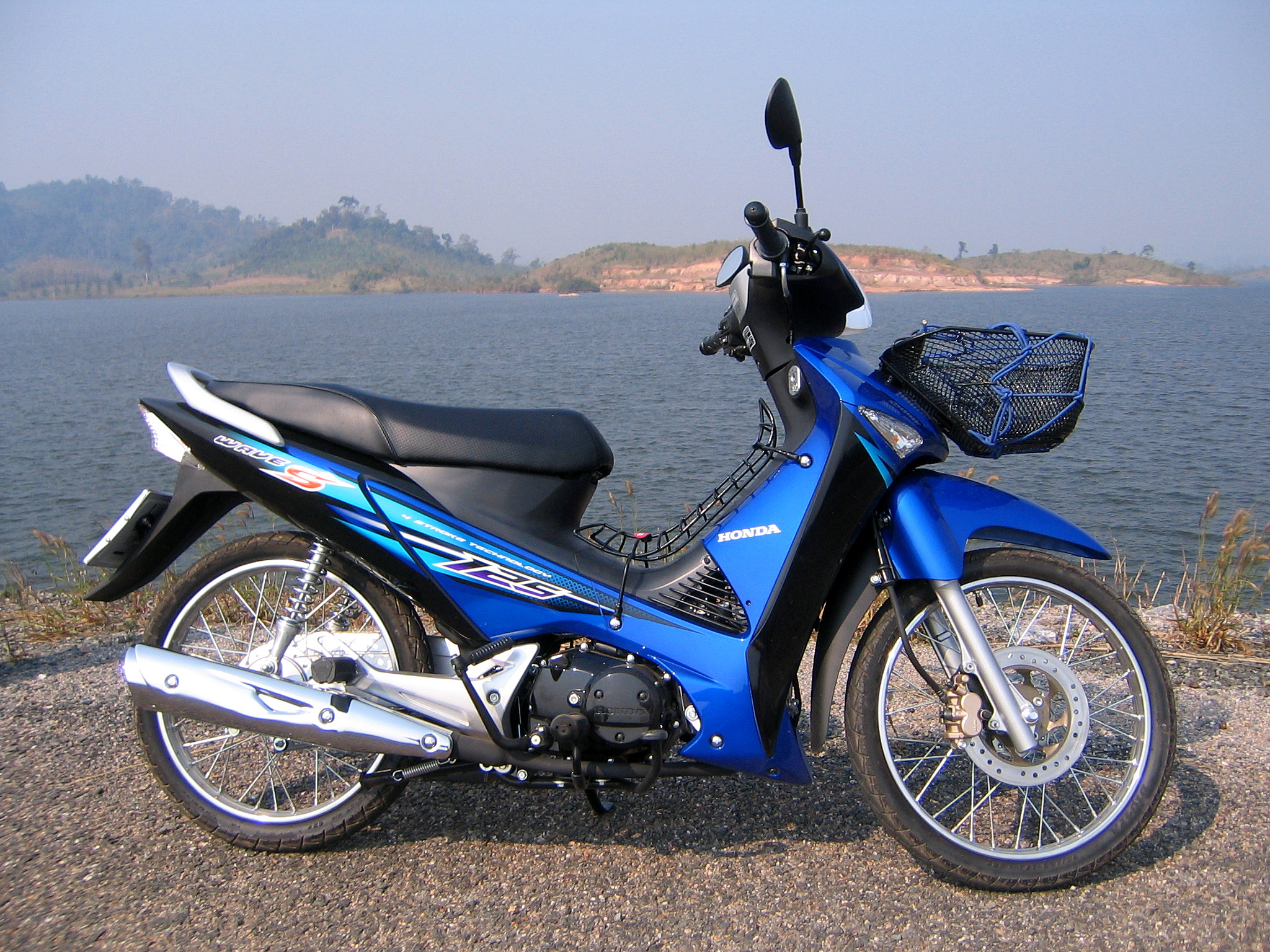 Honda Wave 125 S motorcycle (underbone) 2007 model, made in Thailand.